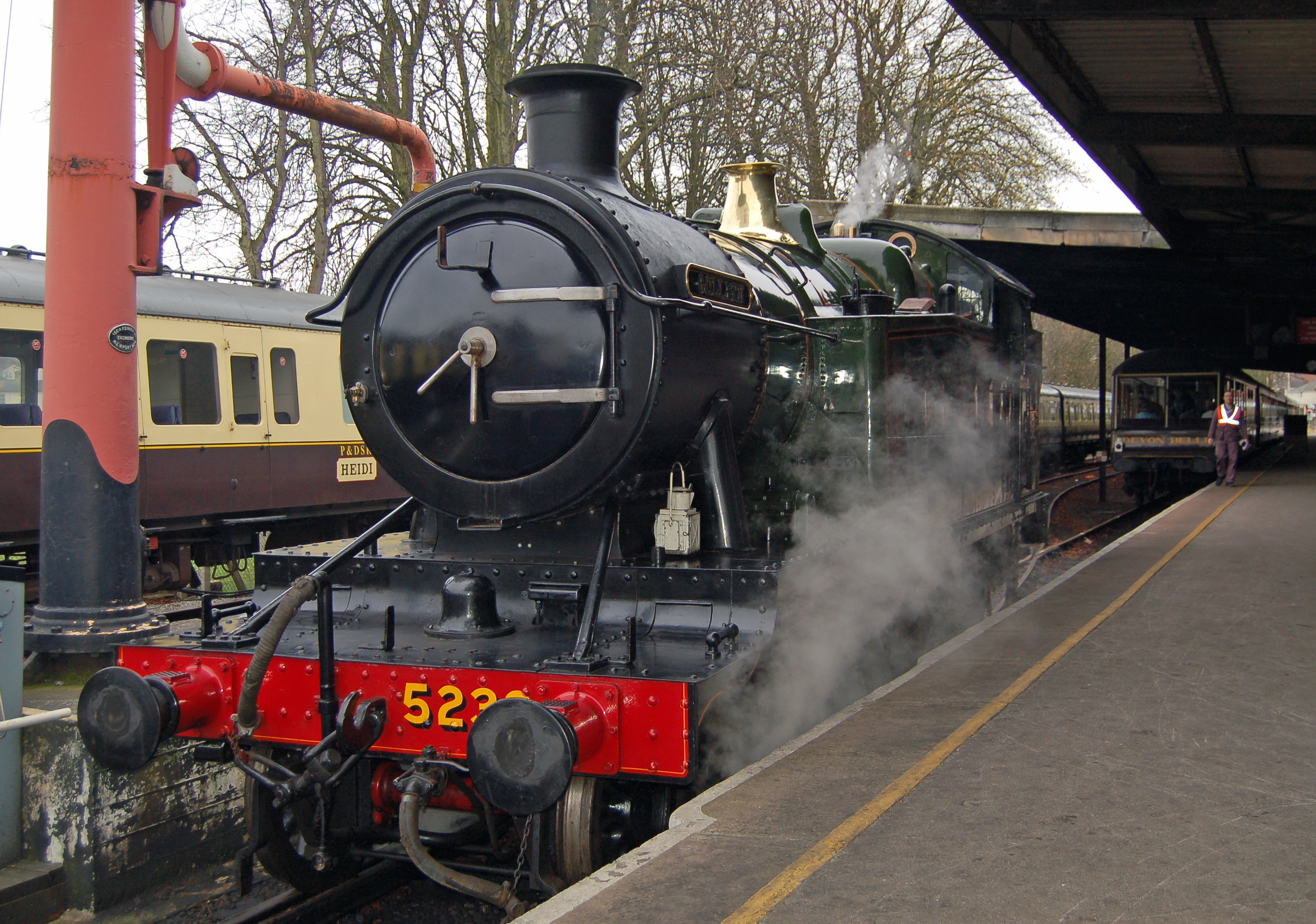 GWR 5205 Class locomotive 5239 standing at Paignton railway station at the head of a train on the Paignton and Dartmouth Steam Railway.